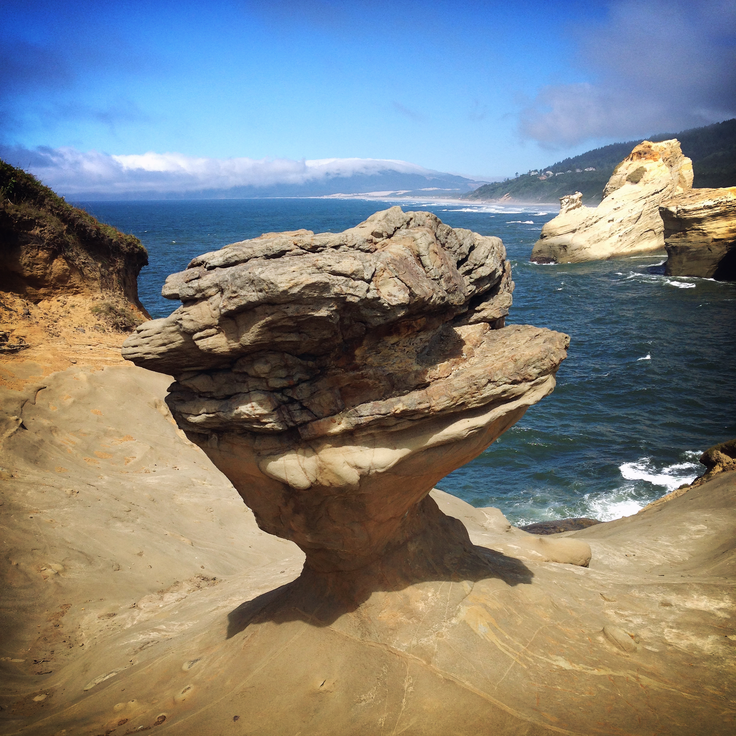 Duckbill (rock formation at Cape Kiwanda State Natural Area) prior to being toppled by vandals on August 29, 2016.